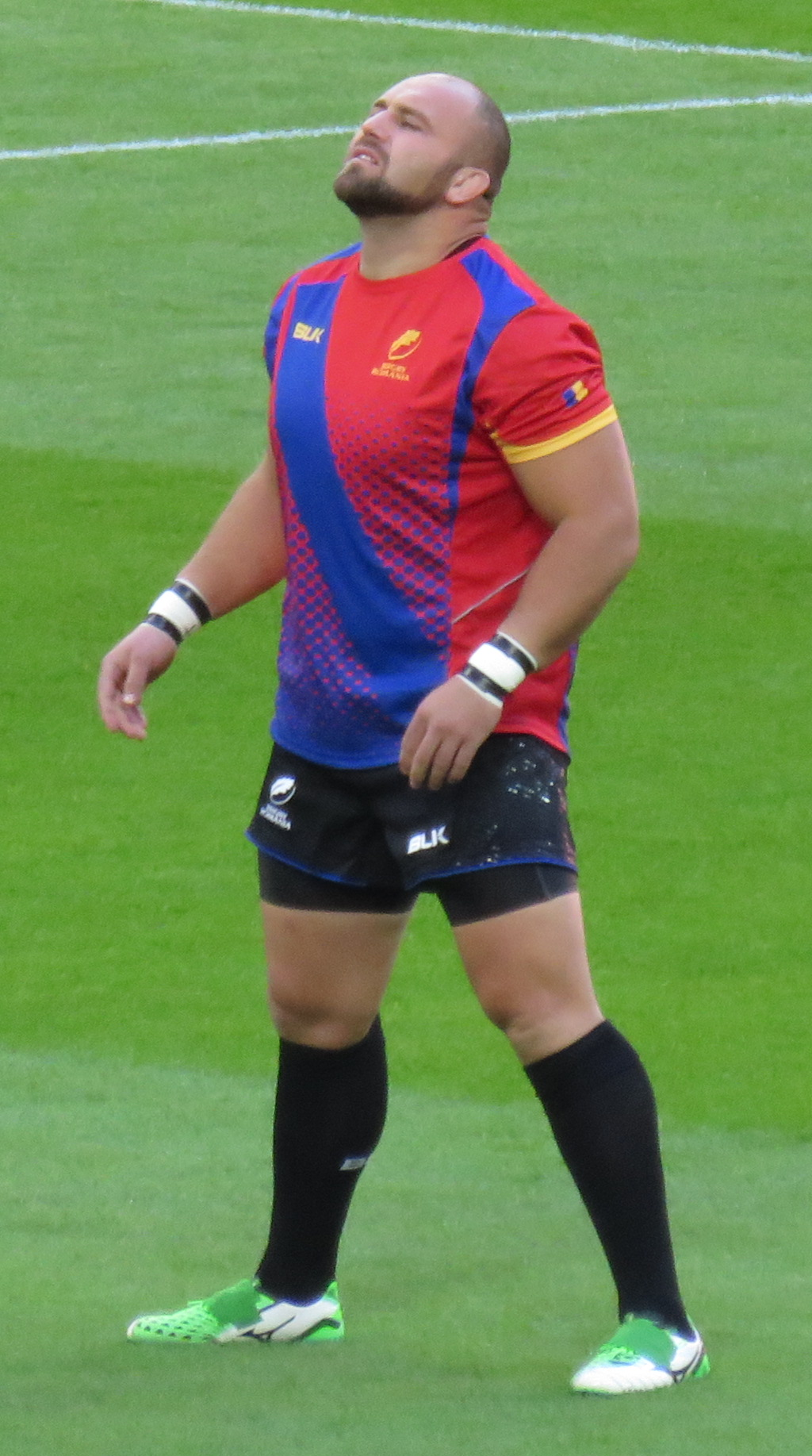 Players of Romania national rugby union team during pre-match warm-up before 2015 Rugby World Cup game Ireland vs Romania at Wembley Stadium, London.